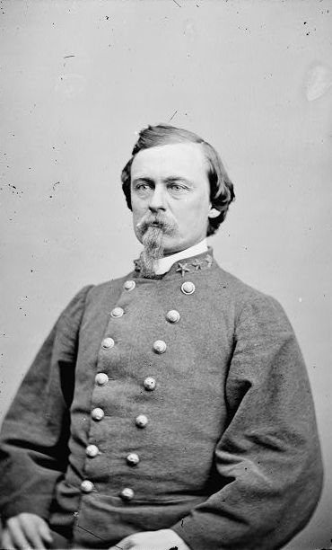 A photograph of General Joseph Finegan.